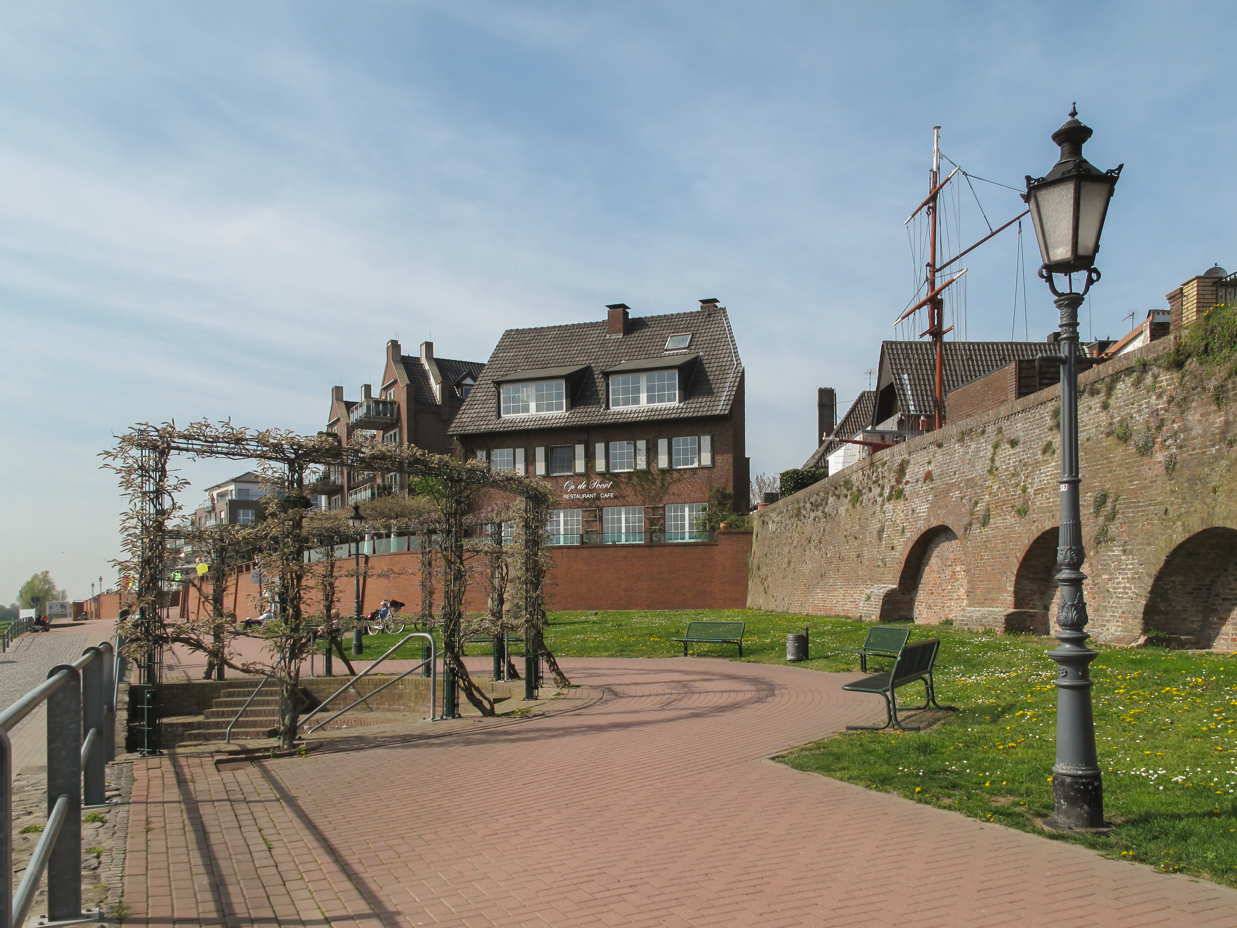 Rees, at the former town wall